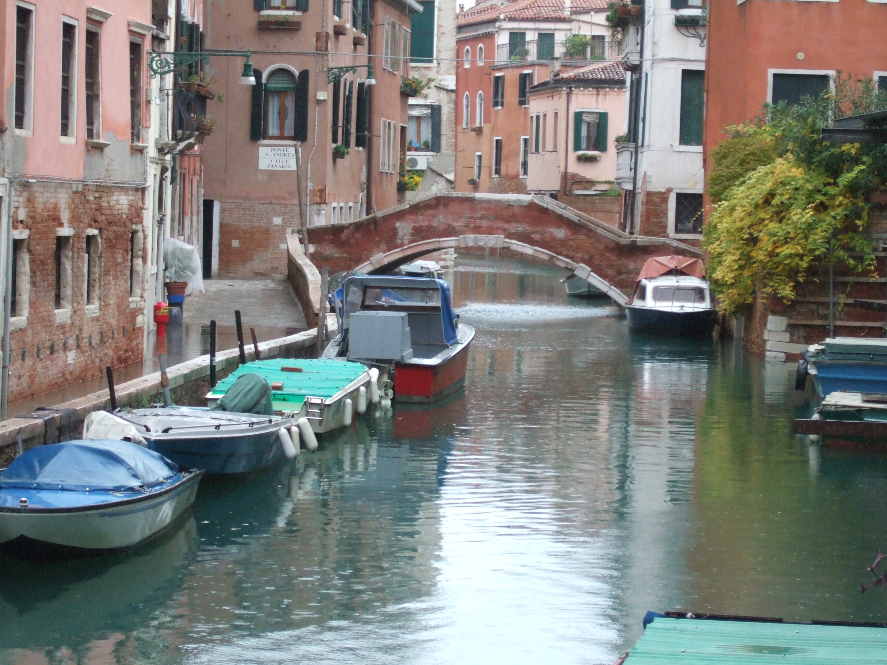 PONTE S. ANDREA, Rio S. Andrea, Canaregio, Venezia